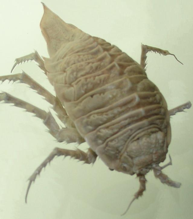 Isopod.